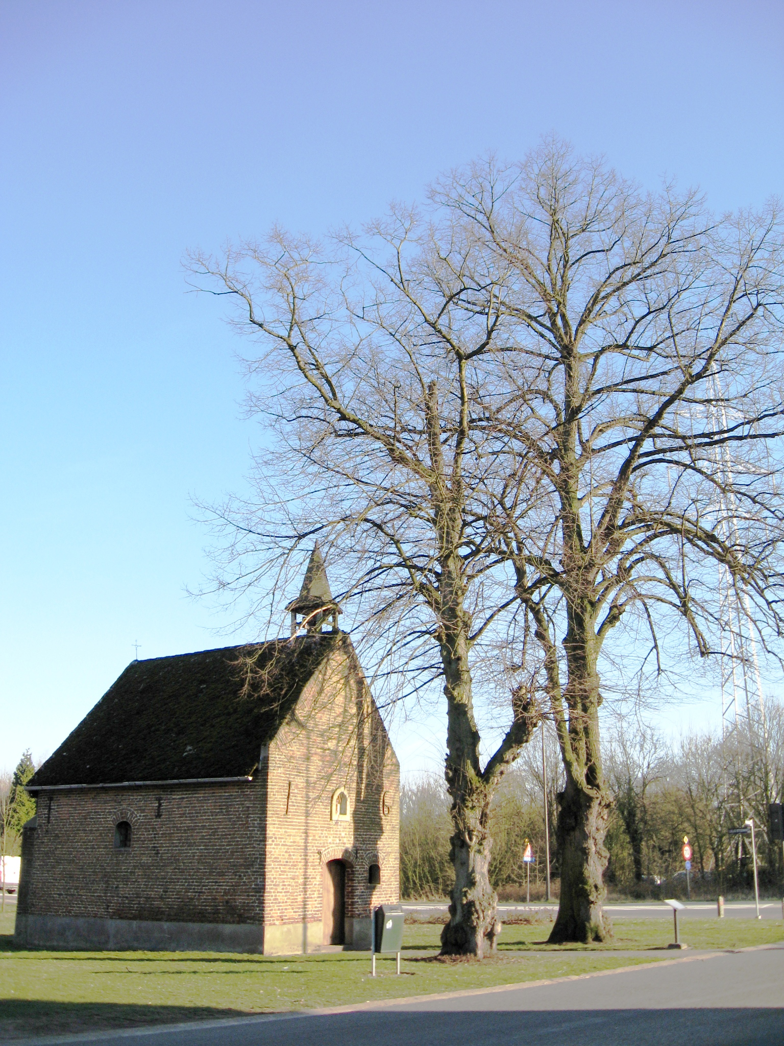 Chapel of Saint Catherine in Houthalen (Lillo), Houthalen-Helchteren, Limburg, Belgium